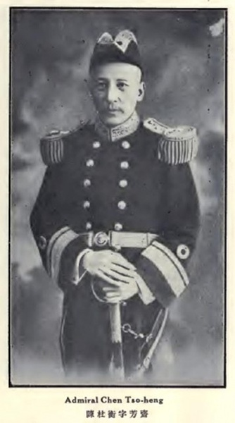 Chen Duheng (1864-？)